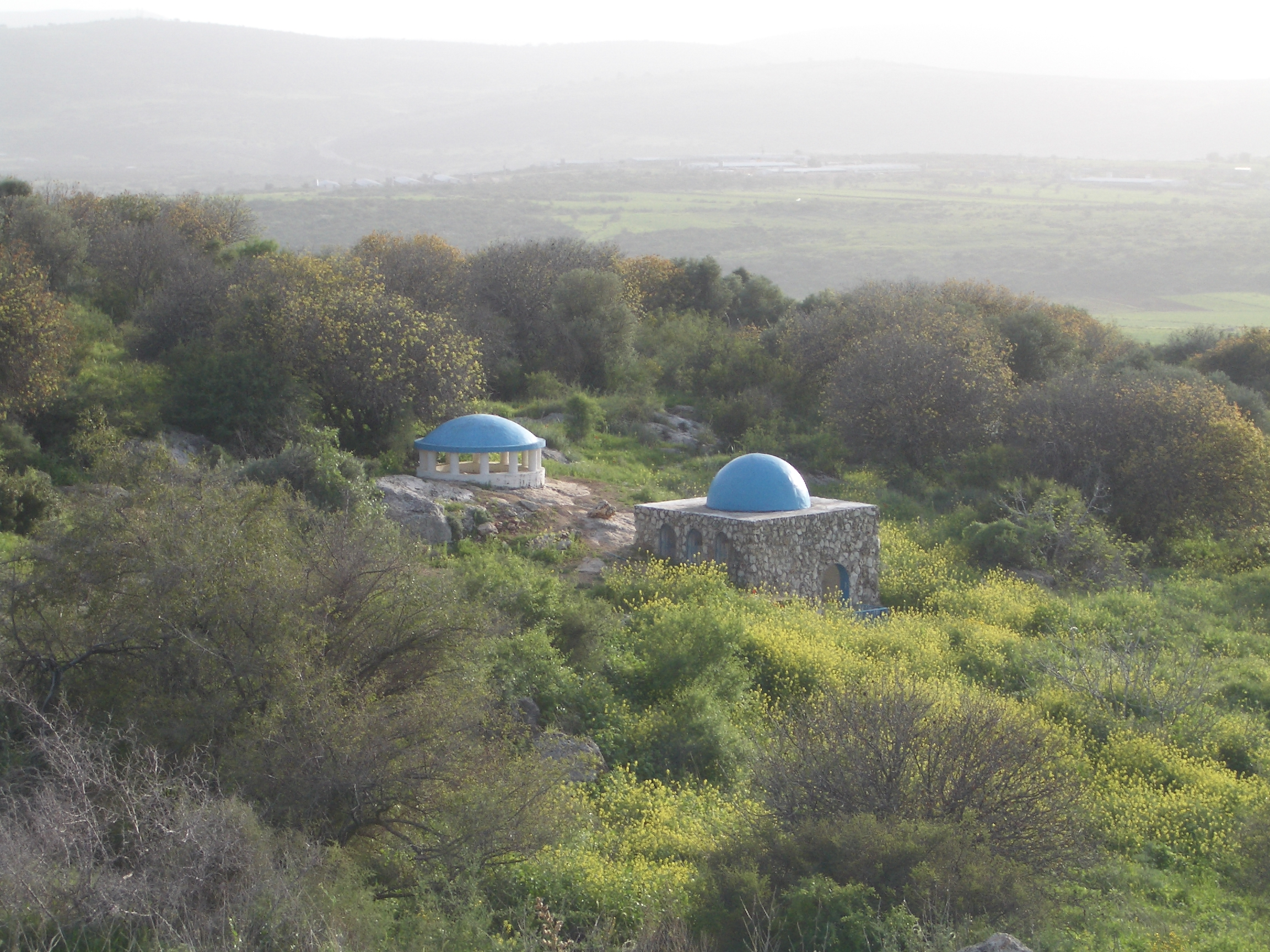 Photograph of the tsiyoun of Rabenou Be`hayé (and his talmidim) as taken in Adar 5766 by Yirmiyahou.